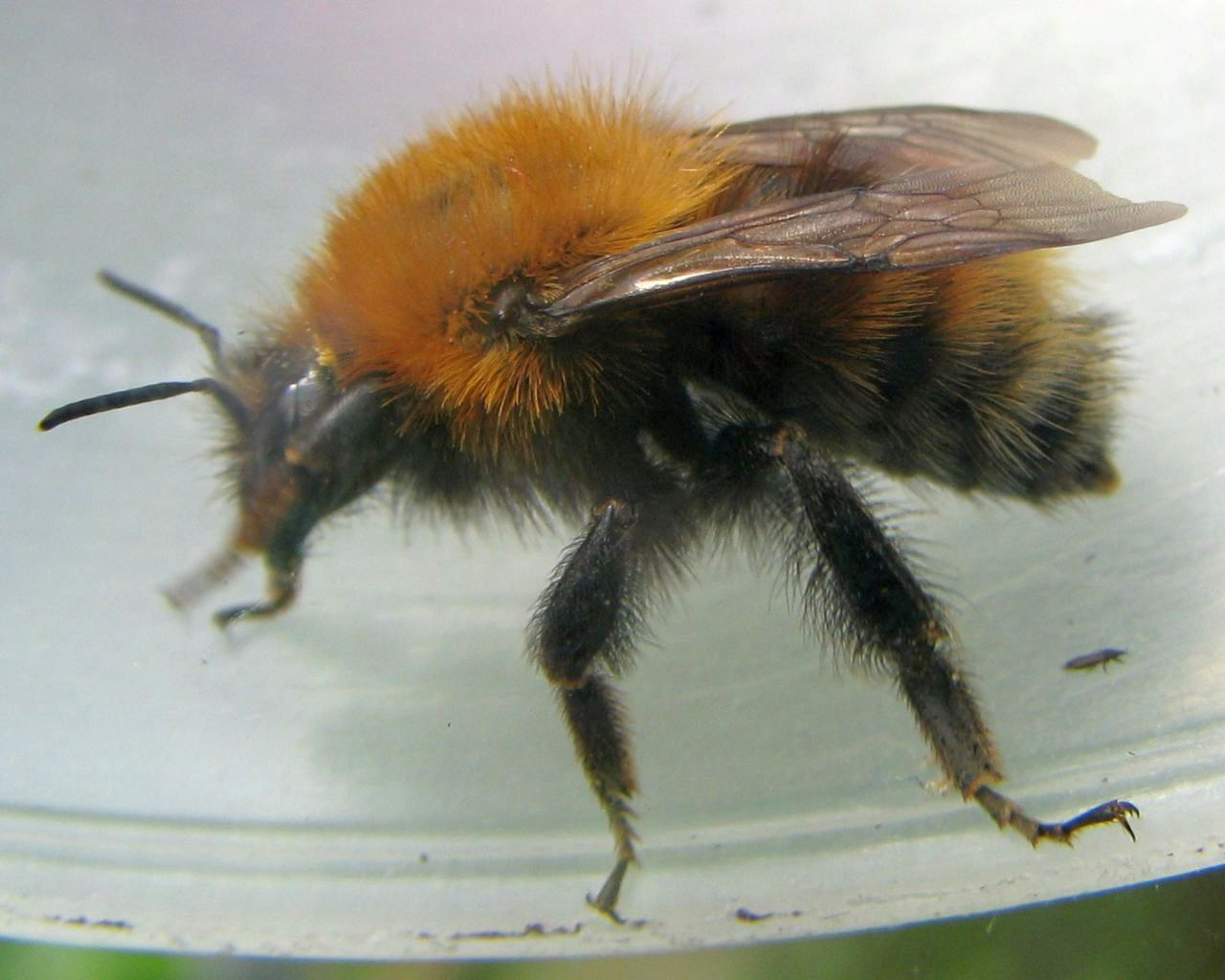 Brown-banded carder bee Bombus humilis with its long head and the dark brown band on the front of the abdomen.